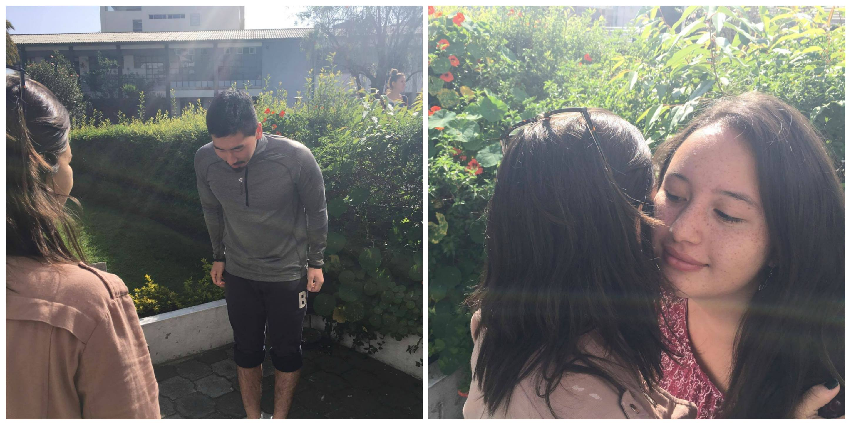 Comparacion del saludo en diferentes cultura. En el lado izquierdo se aprecia la forma del saludo en Asia mientras en el lado derecho se aprecia el saludo mas cercano y caluroso en el lado derecho.